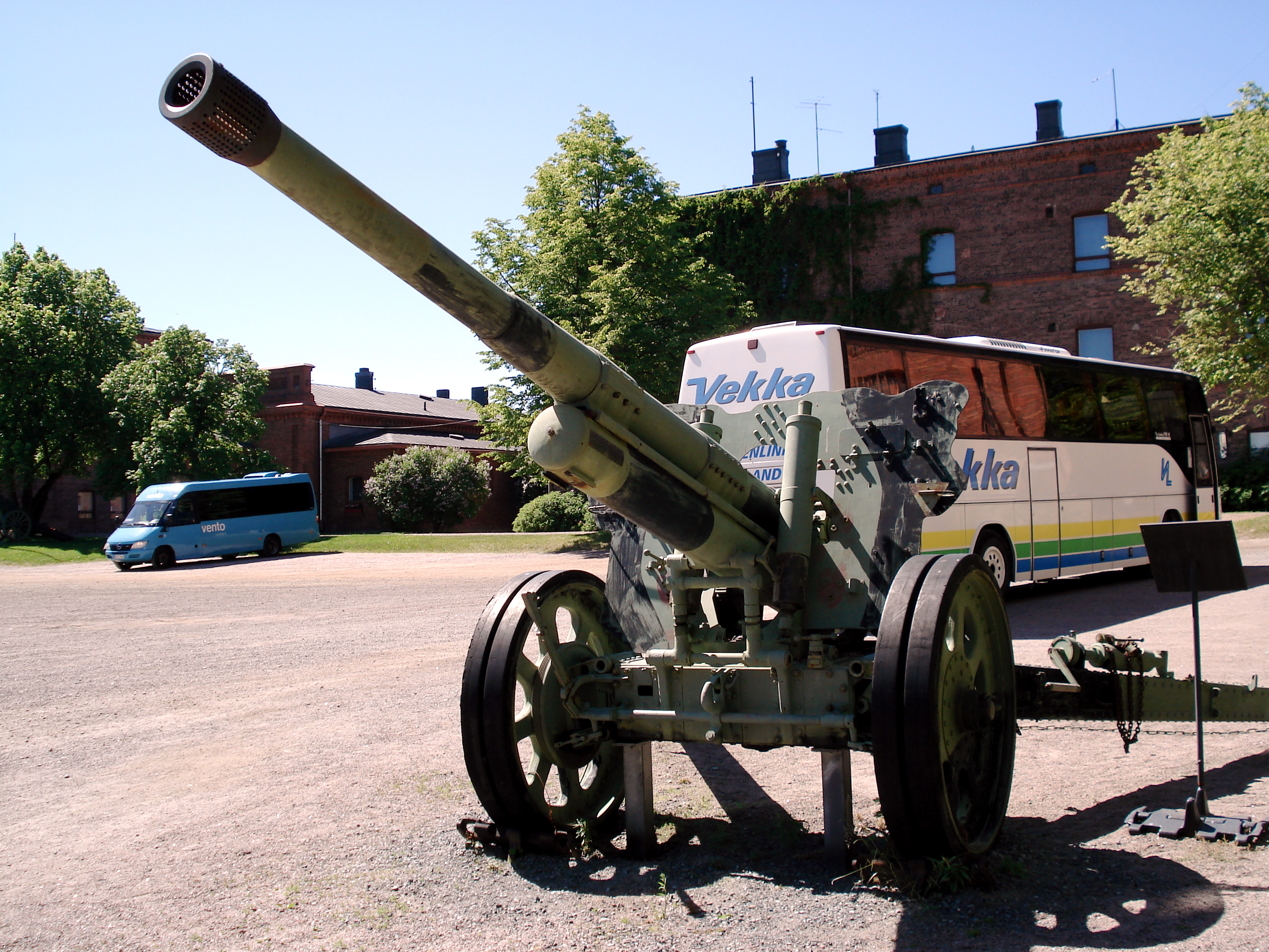 105 mm M34 cannon manufactured by Swedish Bofors. This particular example is one of the 12 purchased and used by Finland. Displayed in Hämeenlinna Artillery Museum. Photo taken on June 18, 2006. Source: Photo by me, User:Balcer.